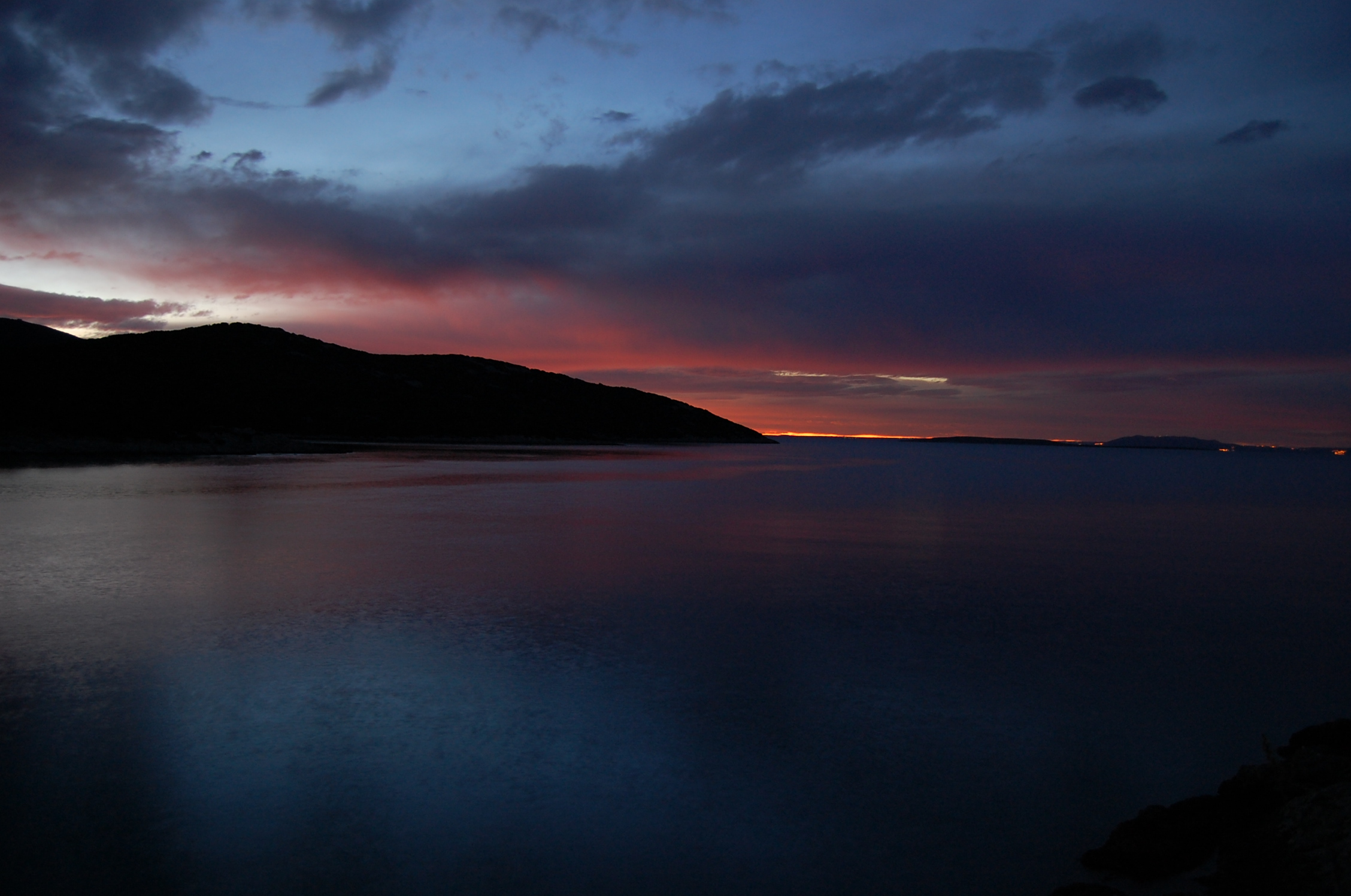 Sunset in Osor on the island of Cres, Croatia. In the background is part of the island of Lošinj.